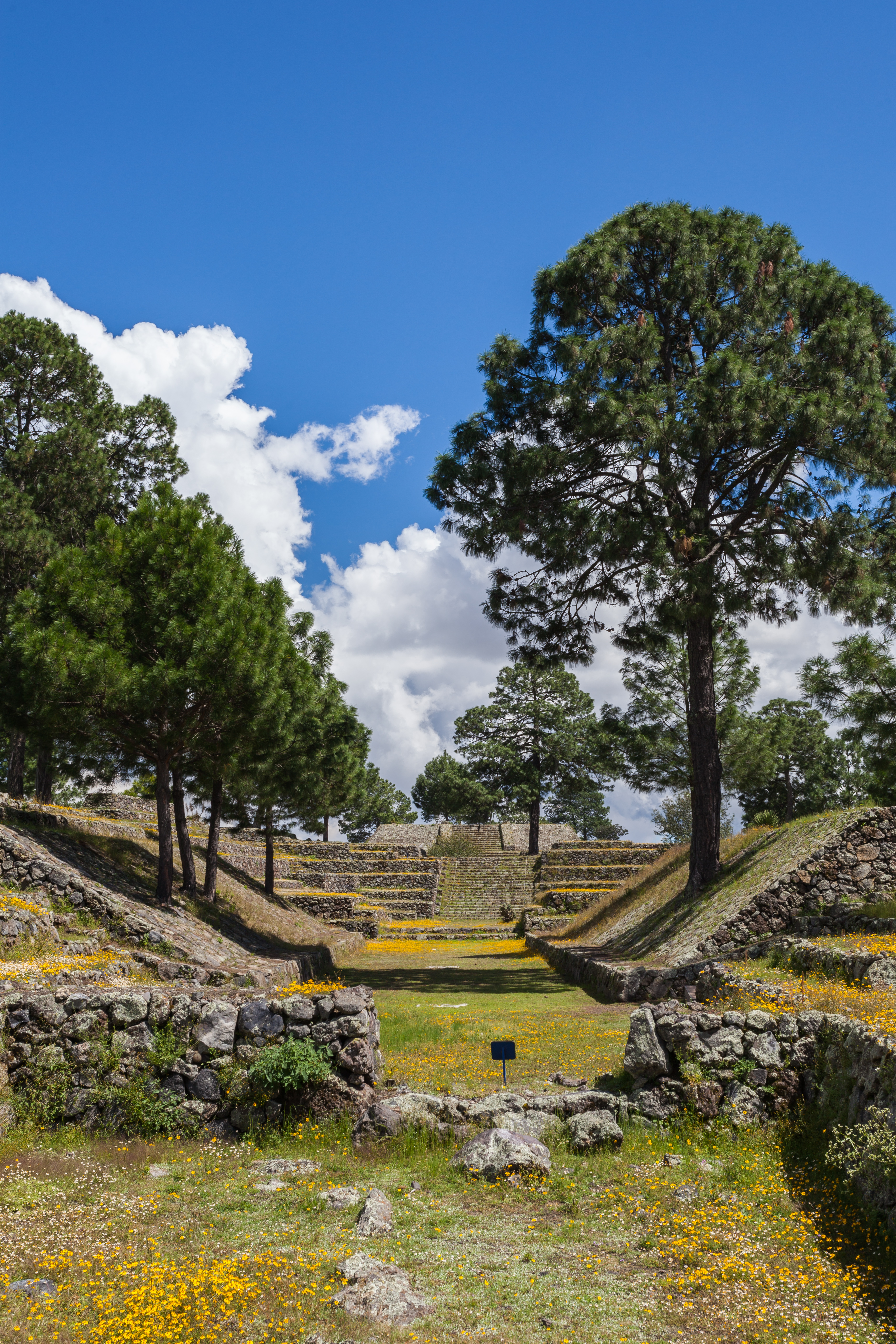 Archaeological area of Cantona, Puebla, Mexico